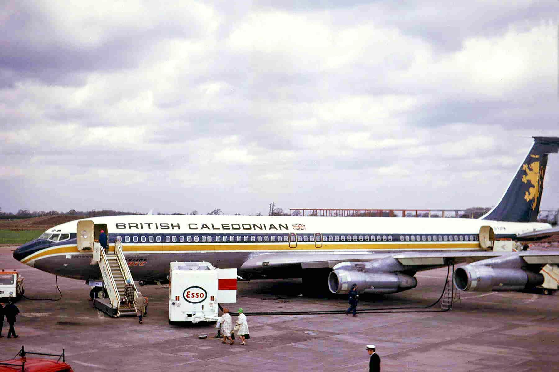 With the skeleton of T1 Pier C just starting to go up in the background